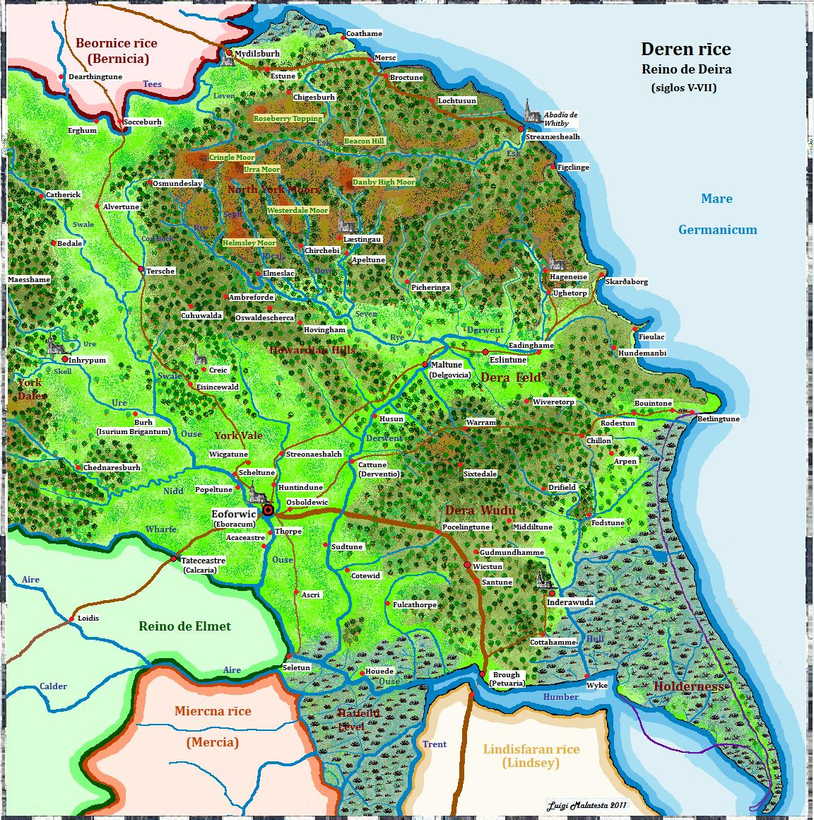 The Deira Kingdom in s. V-VII (Anglo-Saxon period)